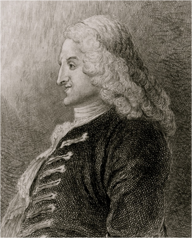 Portrait sketch of Henry Fielding